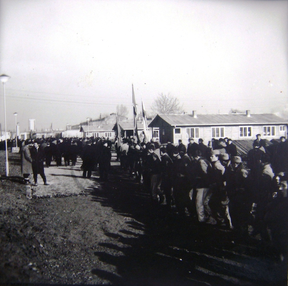 1963 Skopje earthquake: Formal handover in use of settlement Kozle, built by the workers from Serbia (28 December 1963) This media file is produced by Wikipedian in Residence in Category:Wikipedian in Residence at DARM in 2016.